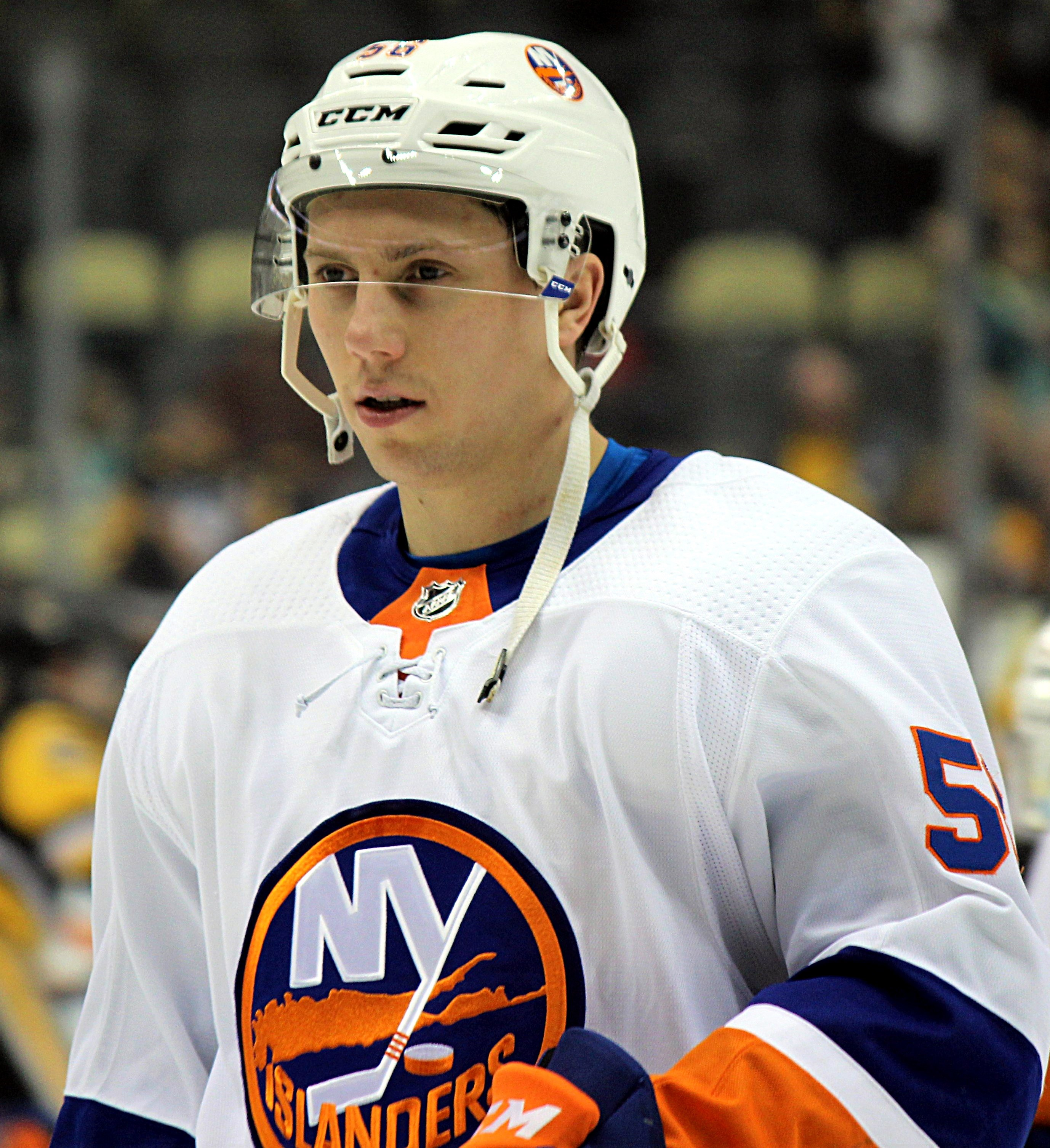 New Yorks Islanders forward Tanner Fritz during a game against the Pittsburgh Penguins at PPG Paints Arena in Pittsburgh, PA. Saturday, March 3, 2018.